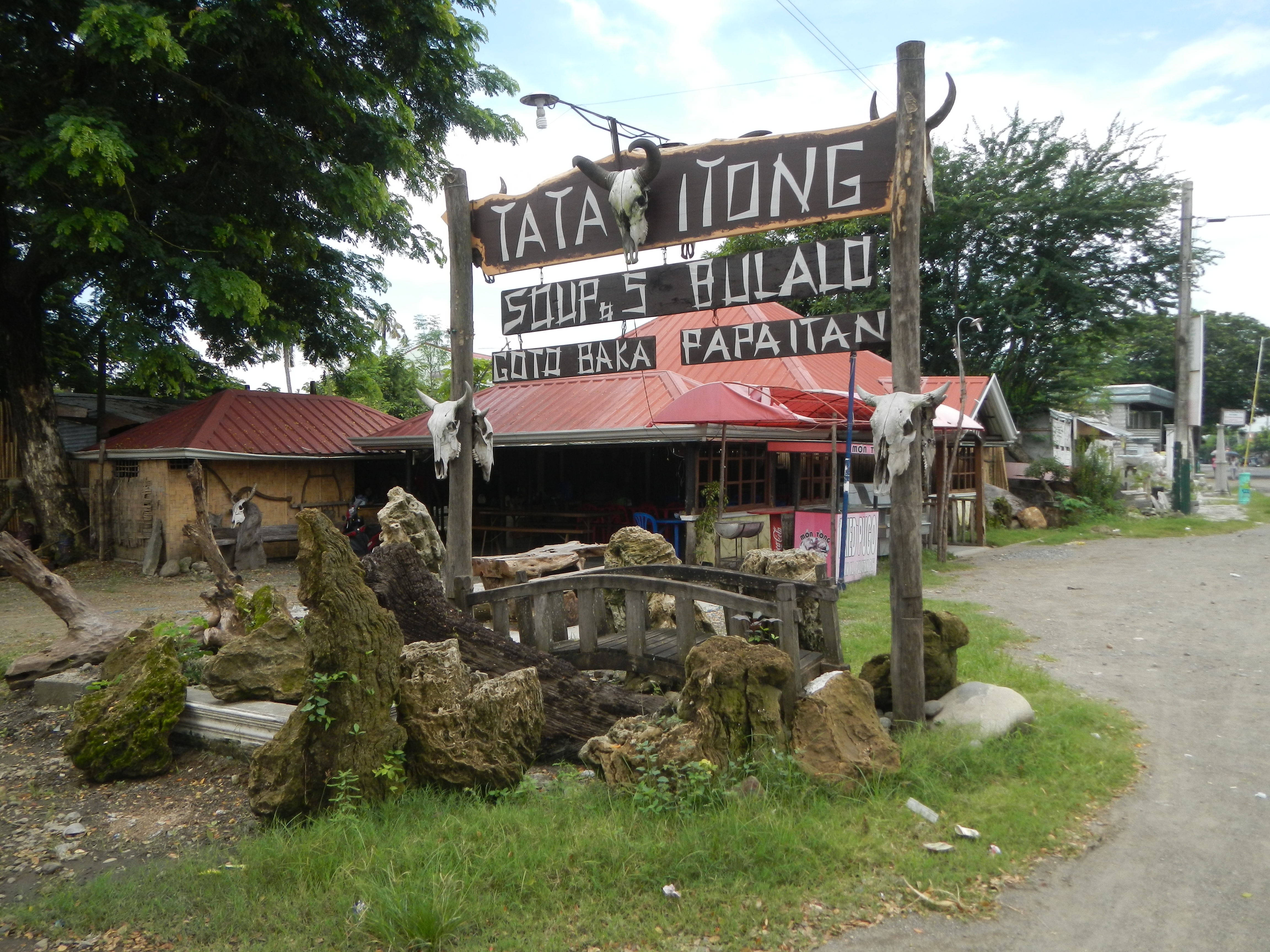 Tata Itong Restaurant (San Miguel, Bulacan) - is a Tourist, Visitor attraction in Bulacan, features a rare collection of hunted plants, bonsai, preserved animals, woods, and antiques aside from exotic food, this is San Miguel's prime Lugaw and Papaitan restaurant in tourism and attractions, located in Poblacion and Salangan, San Miguel, Bulacan along the Pan-Philippine Highway.